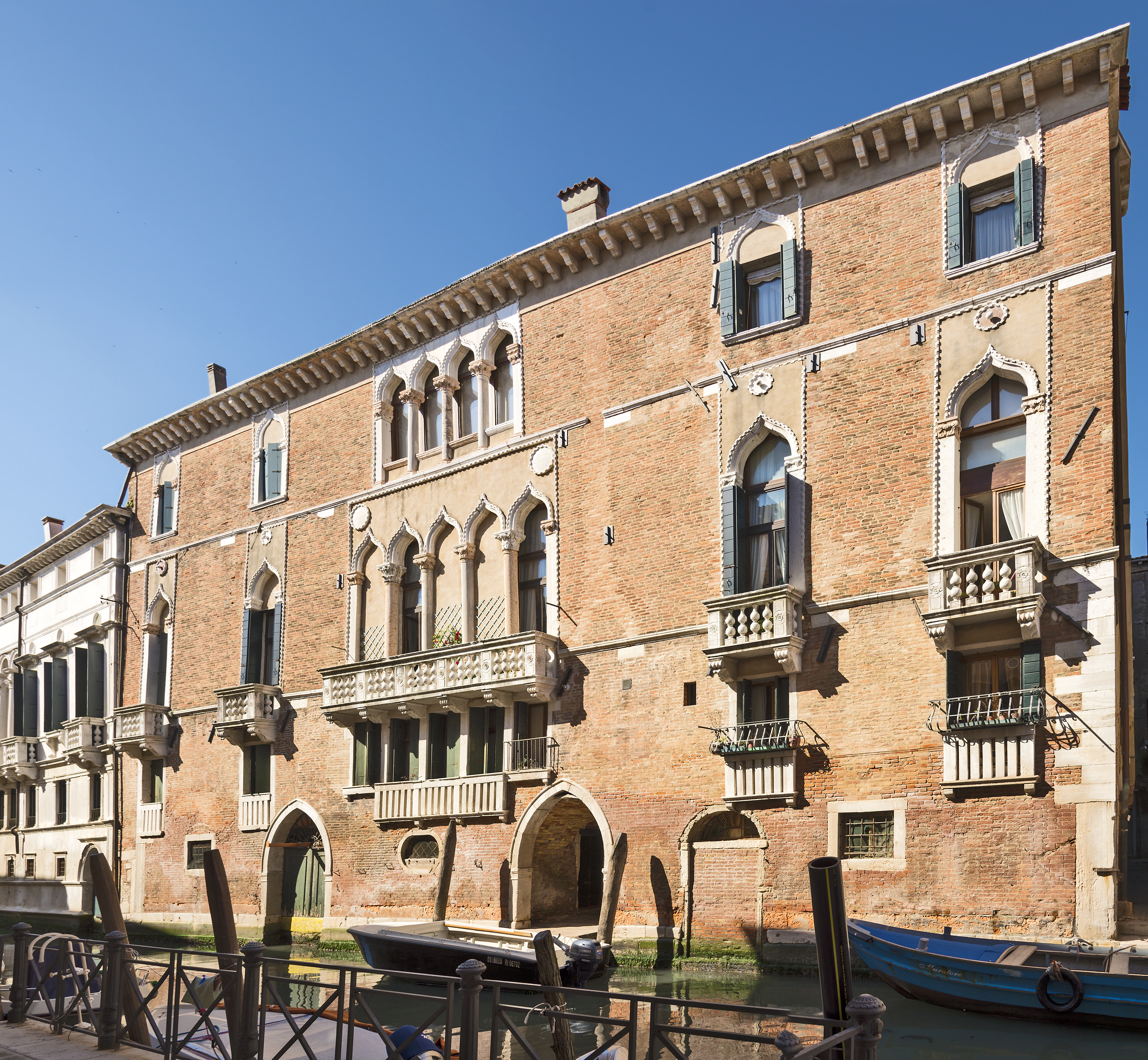 Palace Zorzi Bon, facade on Rio San Severo in Venice.